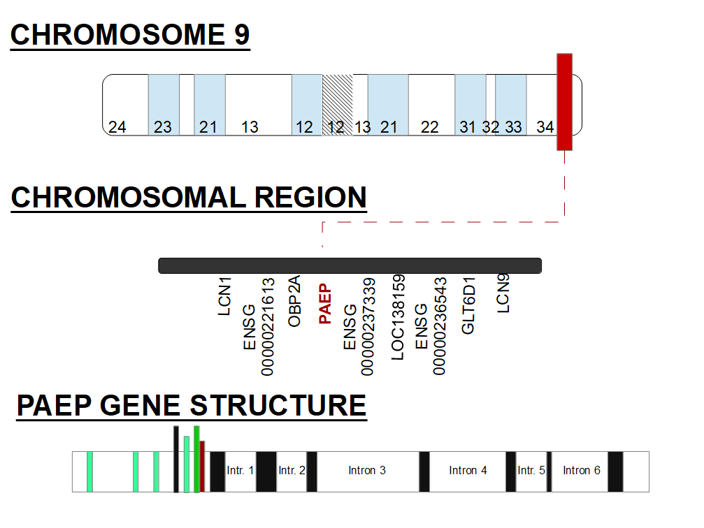 PAEP gene is located on chromosome 9